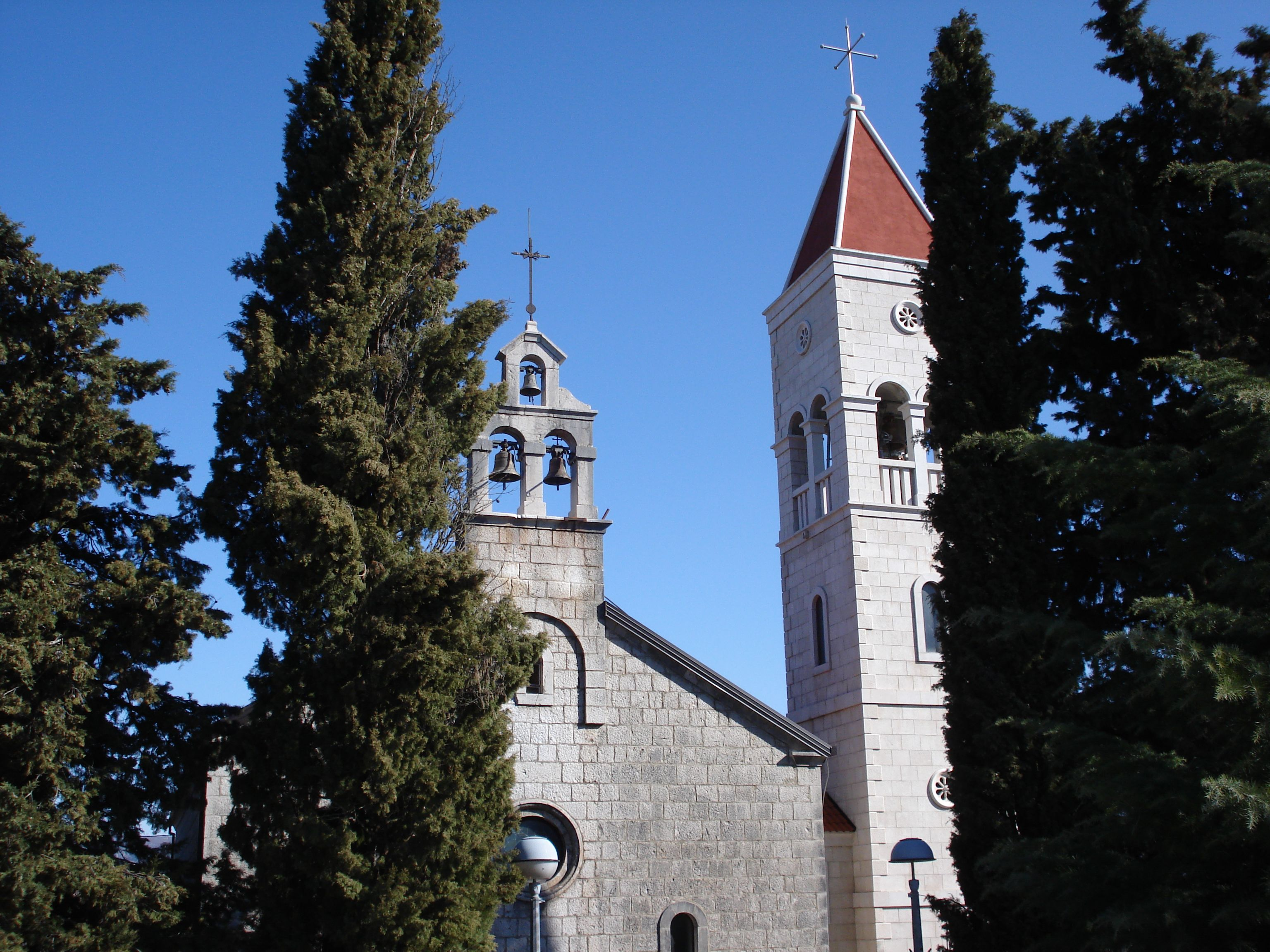 Zmijavci, a municipality in Croatia. The church of All Saints.